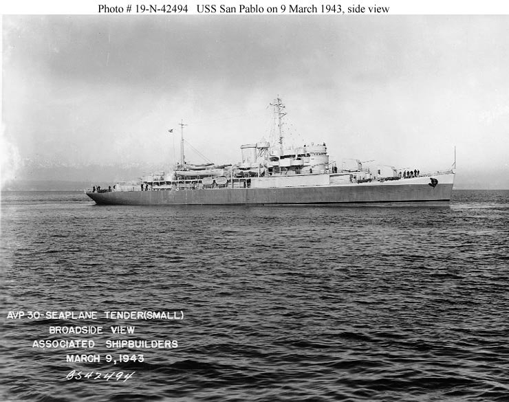 United States Navy seaplane tender USS San Pablo (AVP-30) off Seattle, Washington, a few days before commissioning